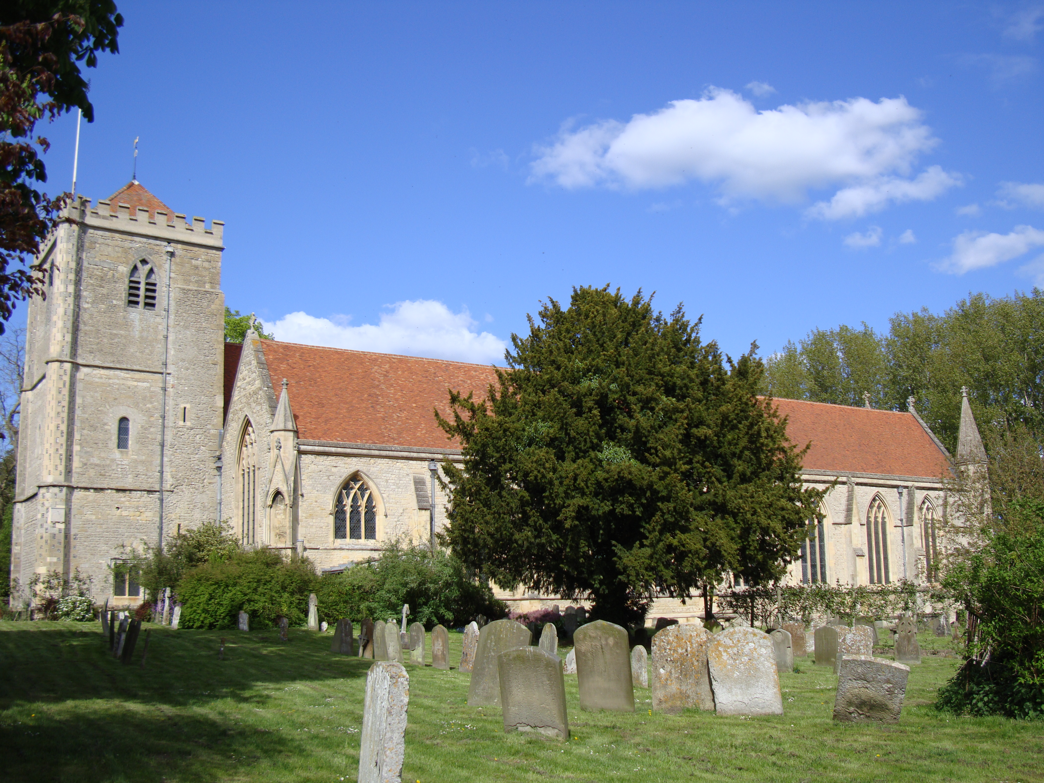 Photograph of Dorchester Abbey, Oxfordshire, United Kingdom